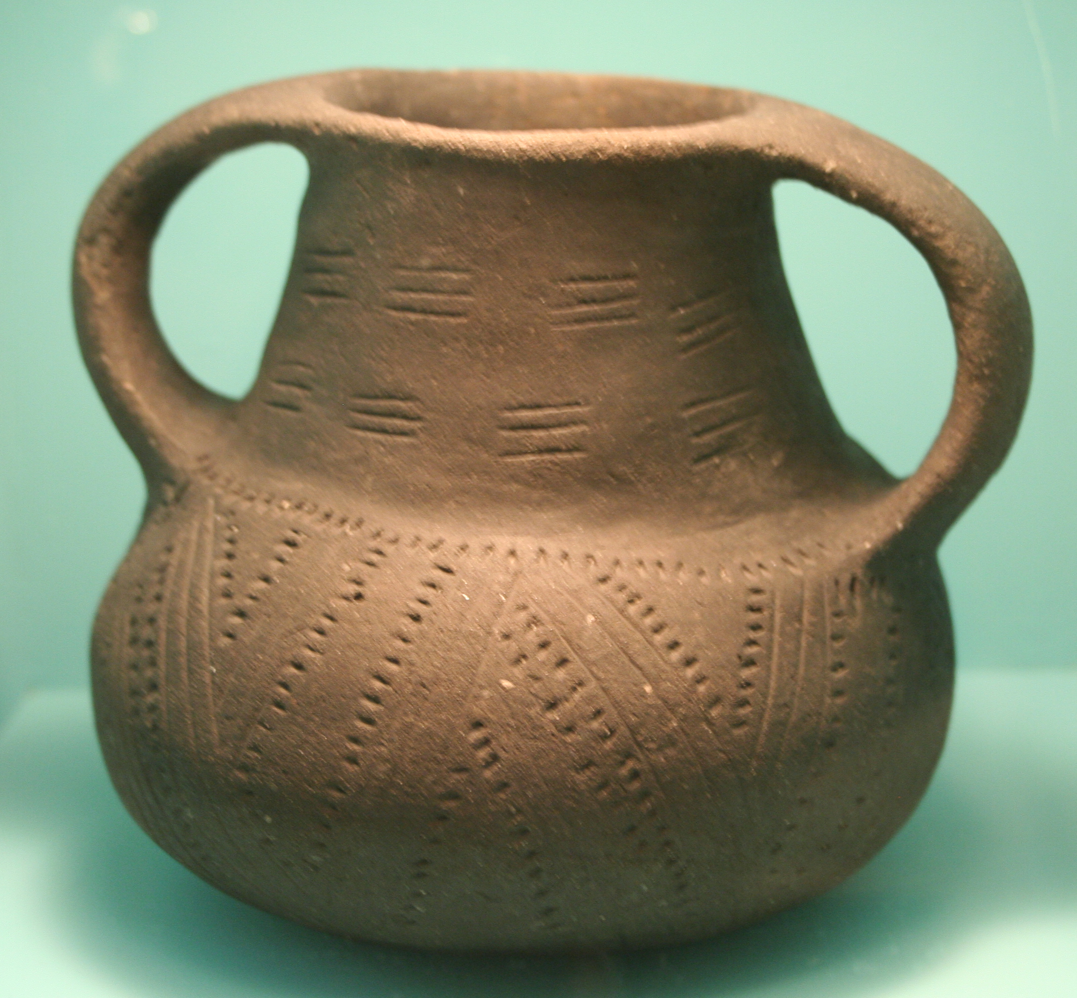 Museum für Vor- und Frühgeschichte (Museum of prehistory and early history), Berlin